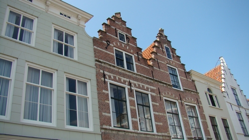 Buildings in Goes, Turfkade 1-9